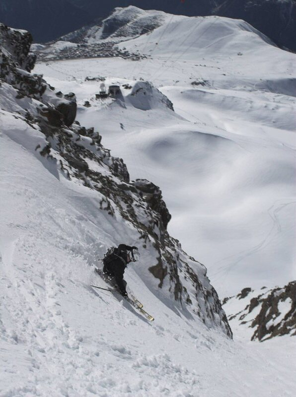 Andy Enright in the Cheminee du Mascle Couloir above Alpe d'Huez